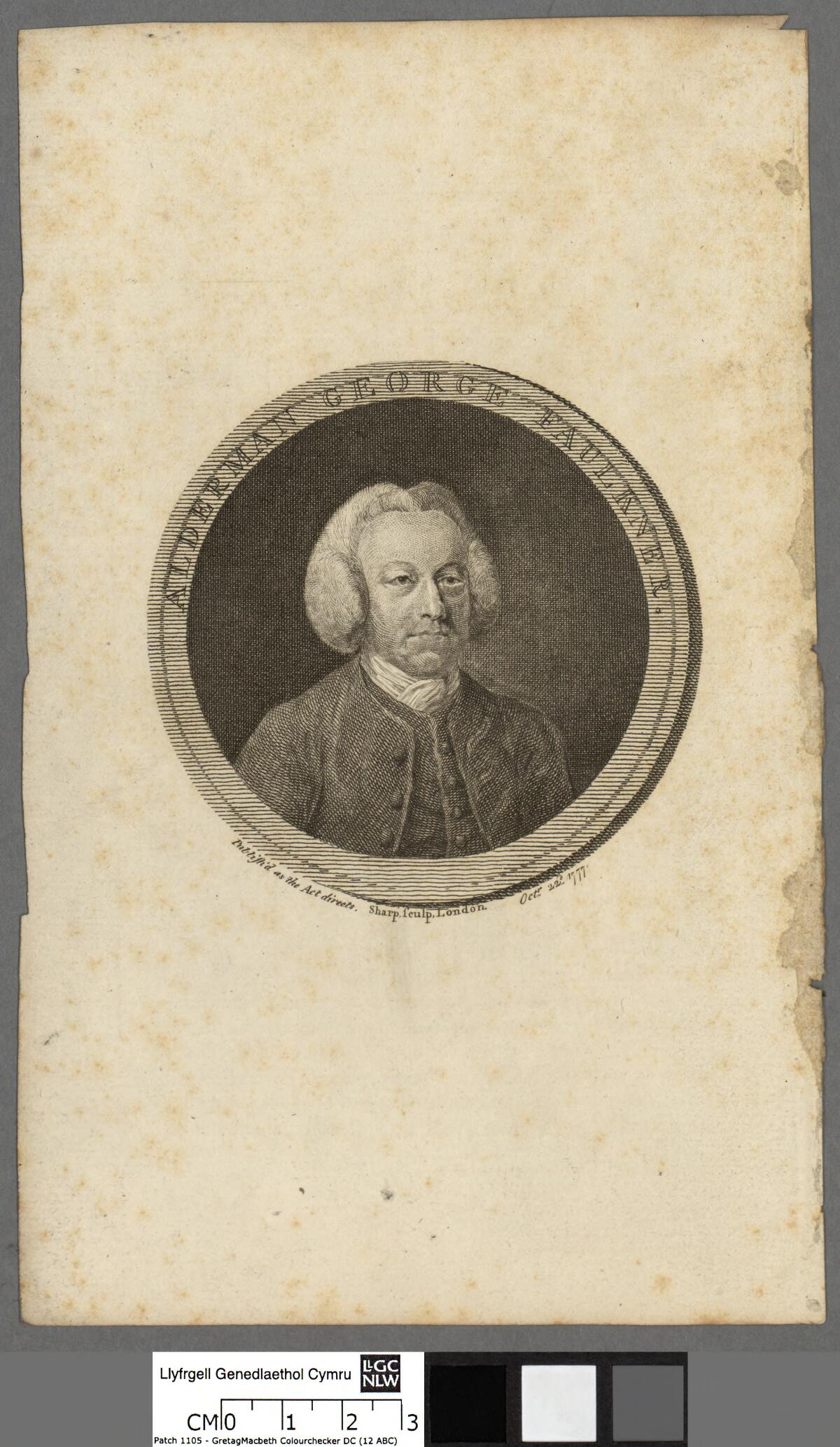 A portrait from the Welsh Portrait Collection at the National Library of Wales. Depicted person: George Faulkner – Irish publisher and bookseller